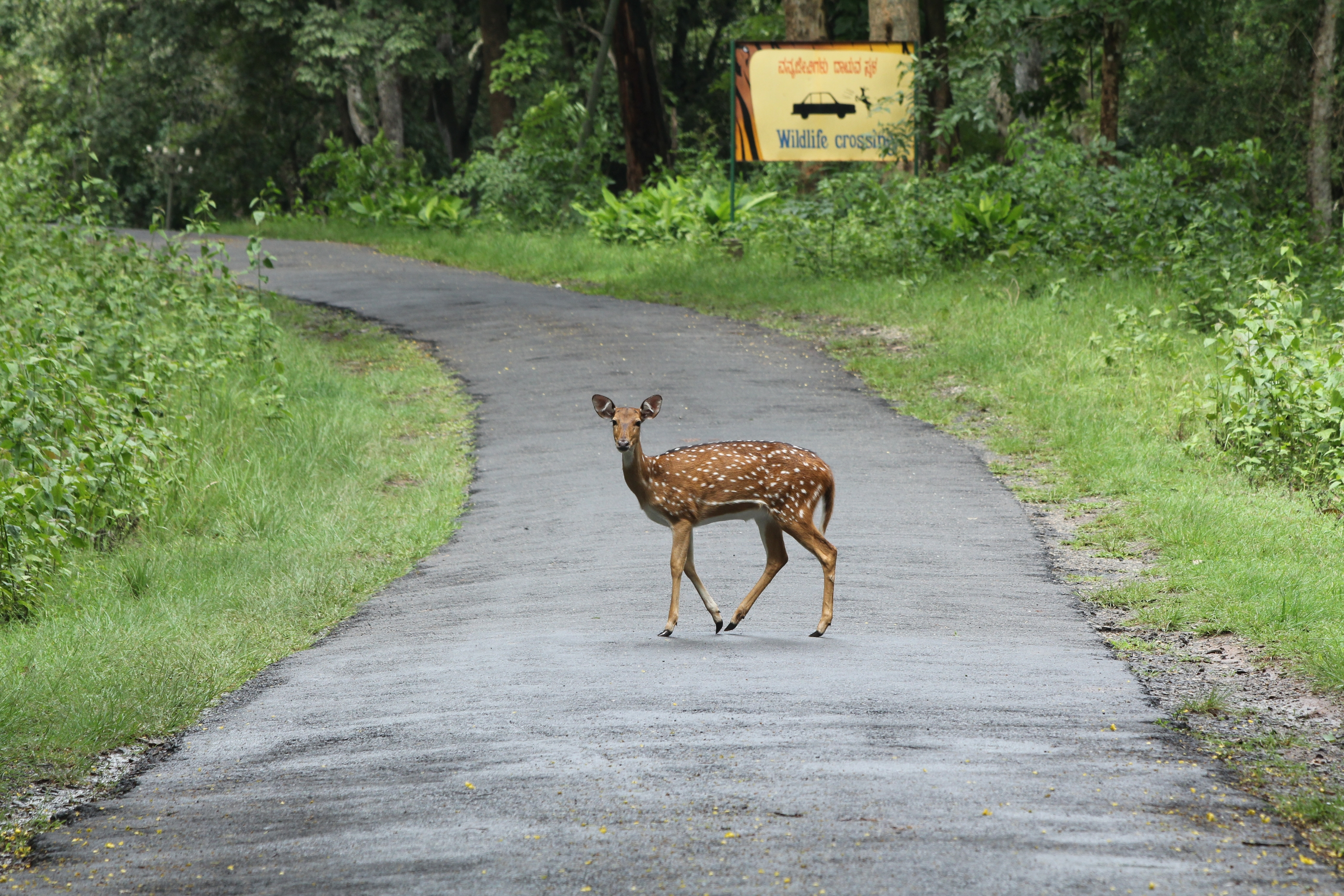 The chital or cheetal (Axis axis), also known as chital deer, spotted deer or axis deer is a deer which commonly inhabits wooded regions of Sri Lanka, Nepal, Bangladesh, Bhutan, India, and in small numbers in Pakistan. It is the most common deer species in Indian forests. The name Chital comes from the Bengali word Chitral (চিত্রল)/Chitra (চিত্রা), which means "spotted". The chital is monotypic within the genus Axis, but this genus has also included three species that now are moved to Hyelaphus based on genetic evidence. The Picture was taken in Nagarhole NP of India where they thrive in huge numbers. The picture shows Axis axis crossing a road which pass through the national park right in front of a wildlife crossing board. Through this picture I wanted to showcase that wildlife crossing and vehicle drivers should be more careful on the road to prevent road kills.